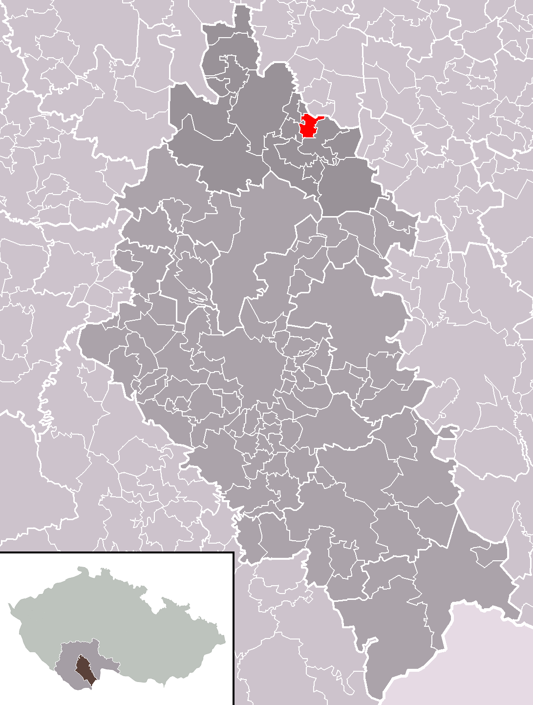 Location of Bečice municipality within České Budějovice District and administrative area of Týn nad Vltavou as a Municipality with Extended Competence.